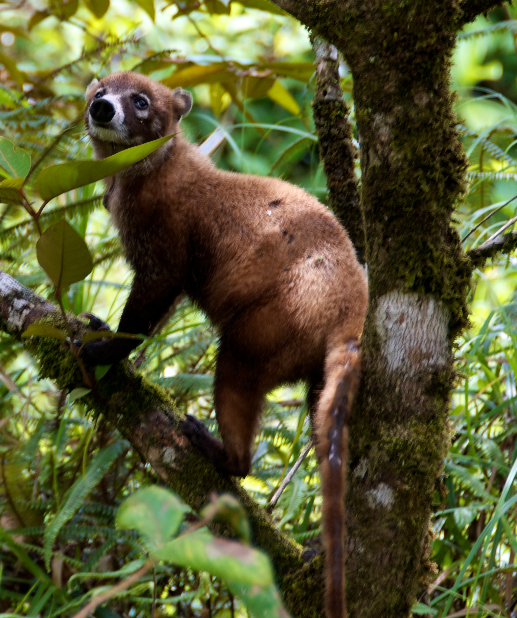 A White-nosed Coati in Costa Rica. Photographed by the side of a road from a car.